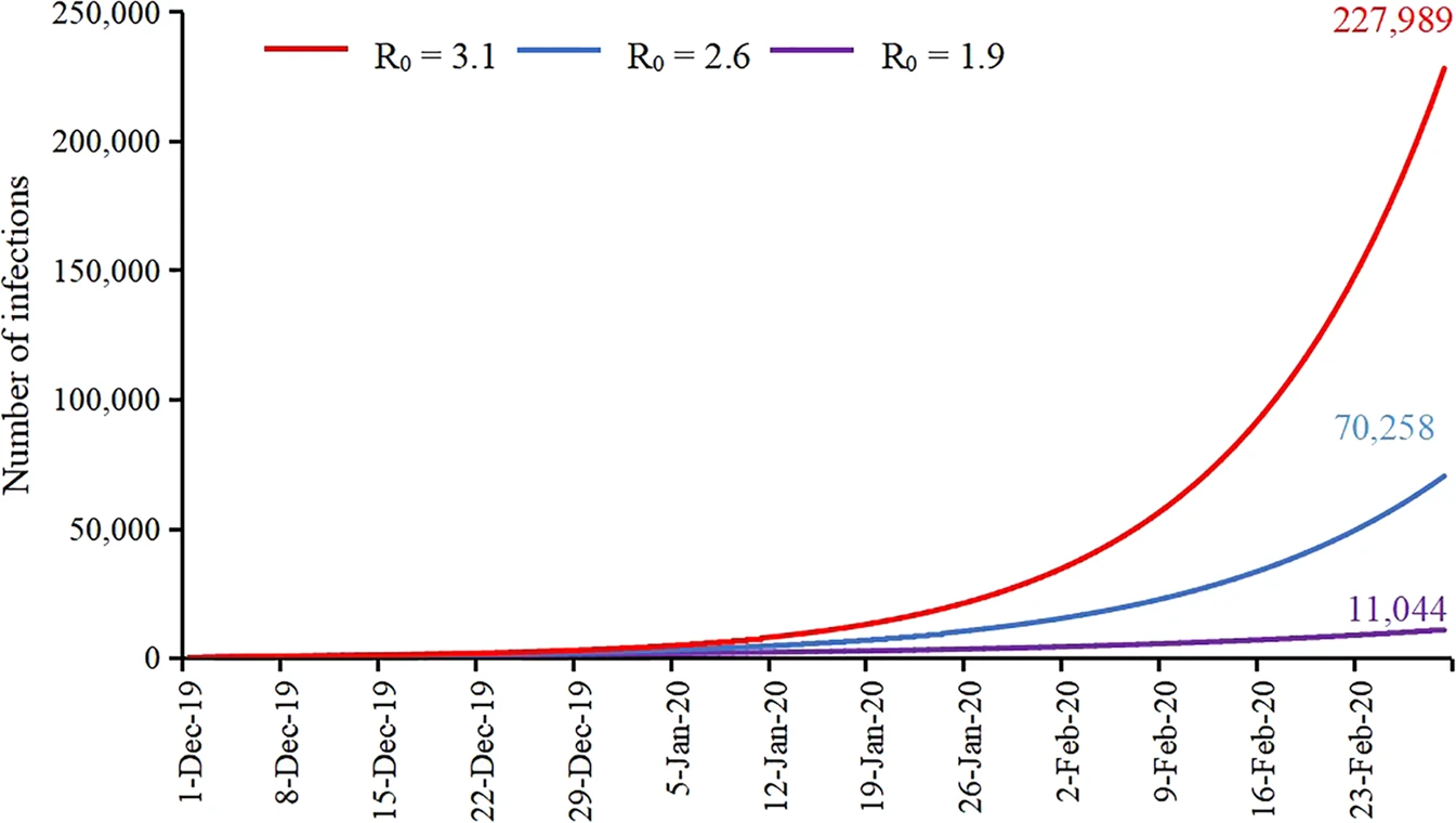 Estimation of the number of COVID-19 cases in Wuhan, China (December 2019–February 2020, R0 = 1.9, 2.6, and 3.1).